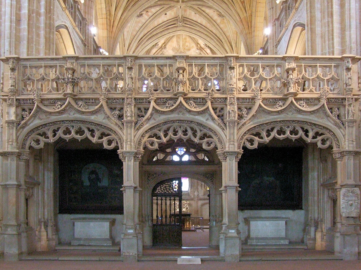 Bourg-en-Bresse (Ain, France), Brou church, pulpitum or stone rood screen between the nave and the chancel.